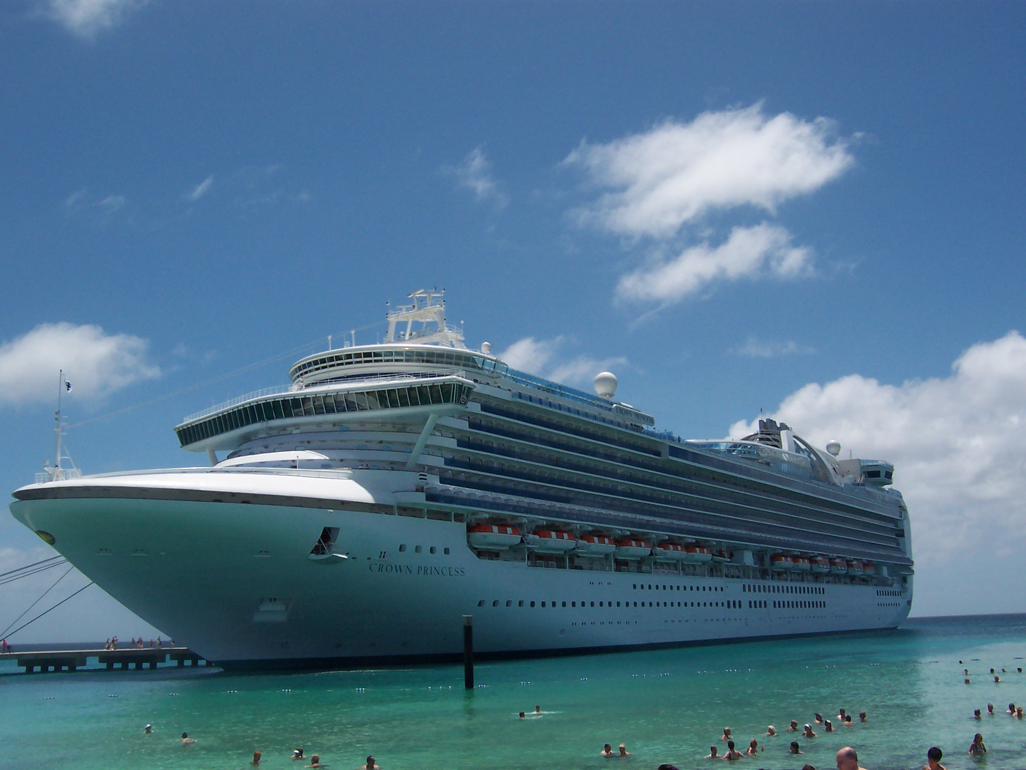 Crown Princess (ship), Cockburn Town, Grand Turk Island, June 2006